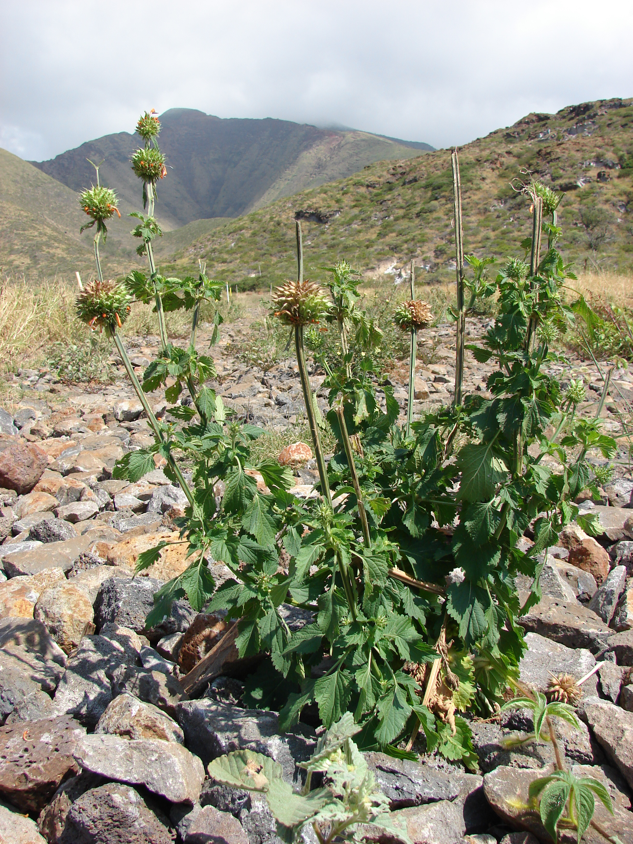 Leonotis nepetifolia (habit). Location: Maui, Launiupoko